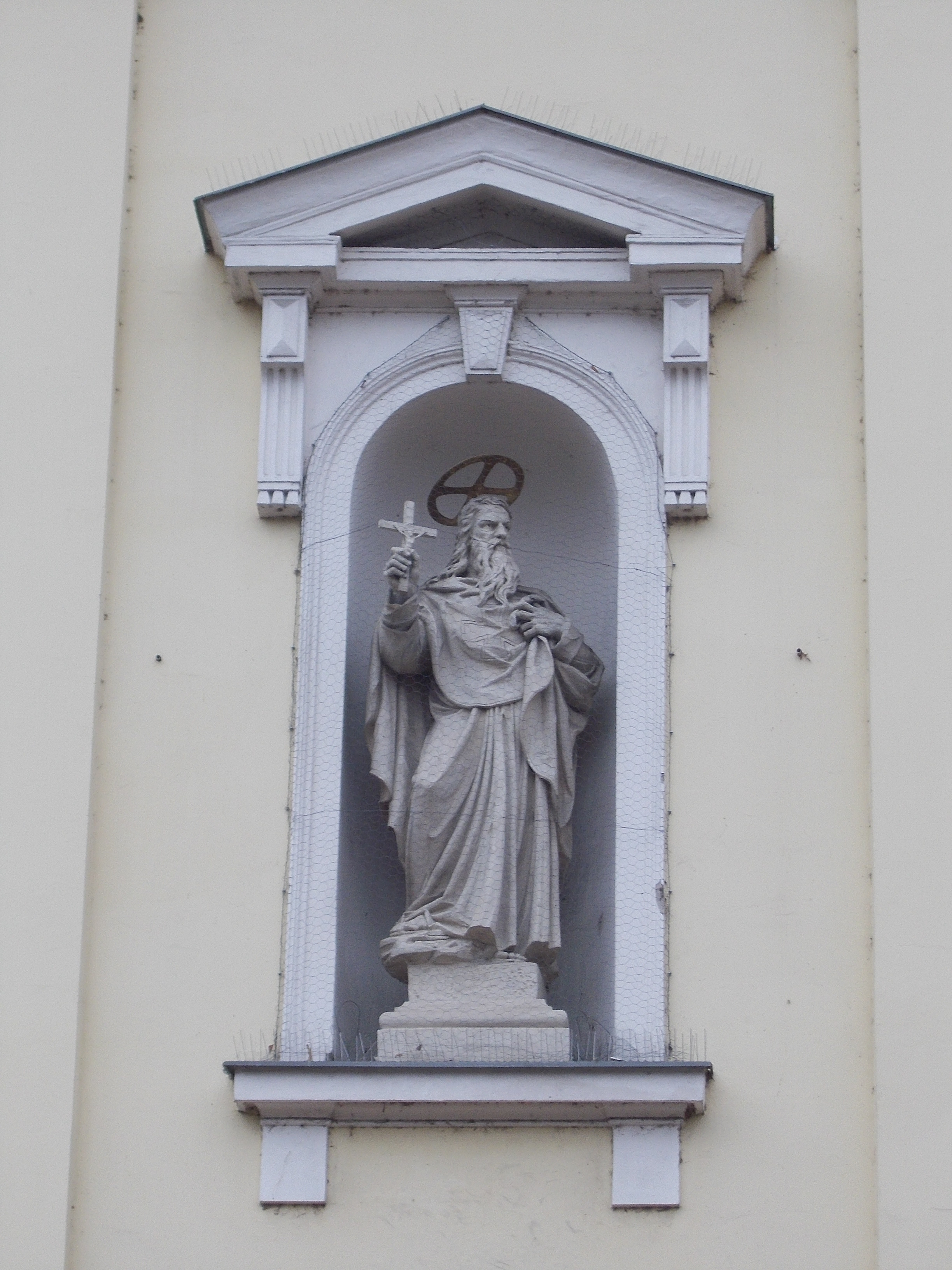 Saint Catherine Church. Above the gates stand (in niches) the Statue of Saint Catherine of Alexandria, Bishop Saint Gellért, Charles Borromeo. - Attila Street, Tabán, Budapest